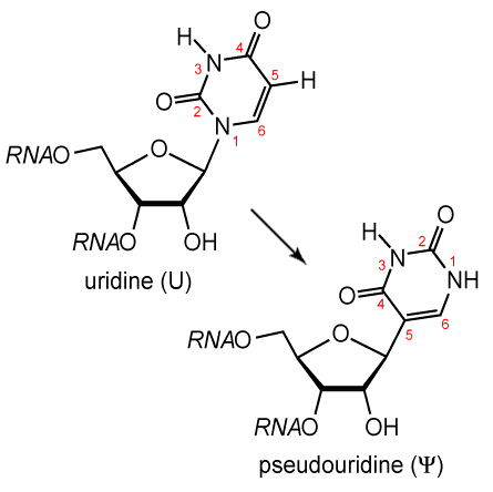 Adapted from U PSI.jpg at